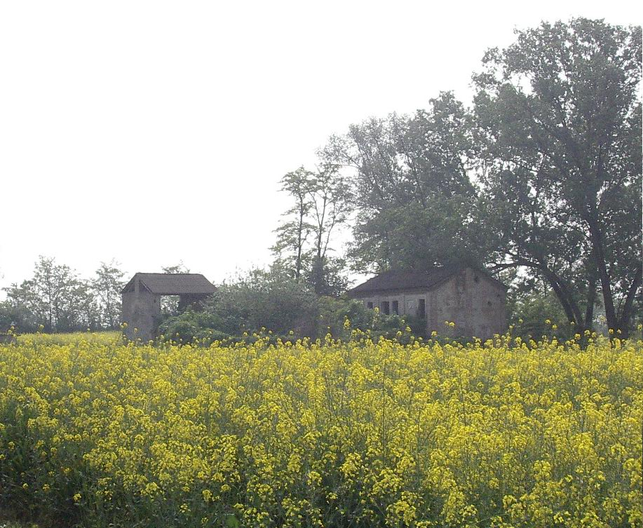 old mill in the countryside around Dresano, Italy